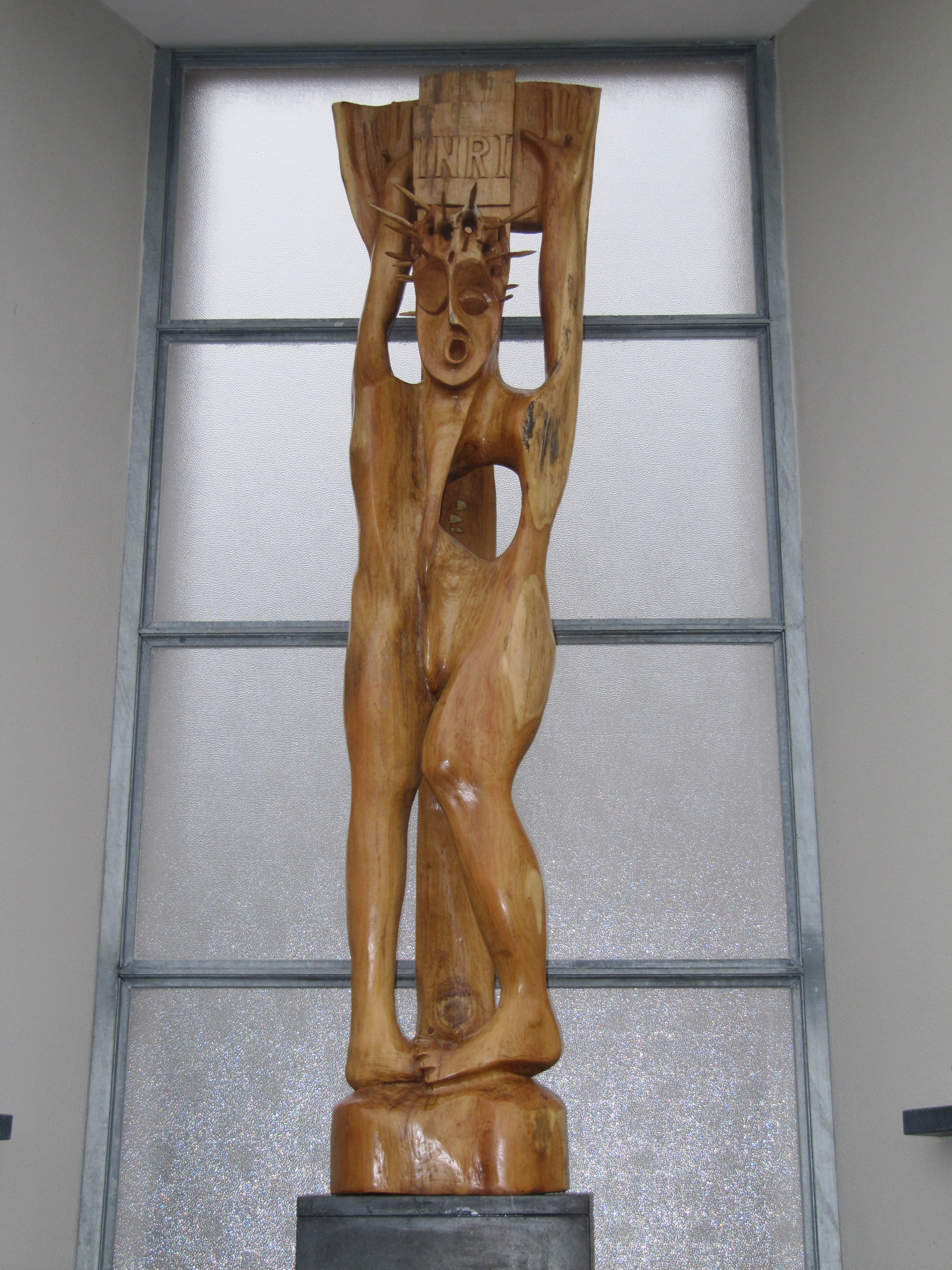 Elm statue of Jesus Christ at the cross created by Juul van de Kolk in the roadside chapel at the corner of the Peelkant and De Waterval in Wanroij, The Netherlands